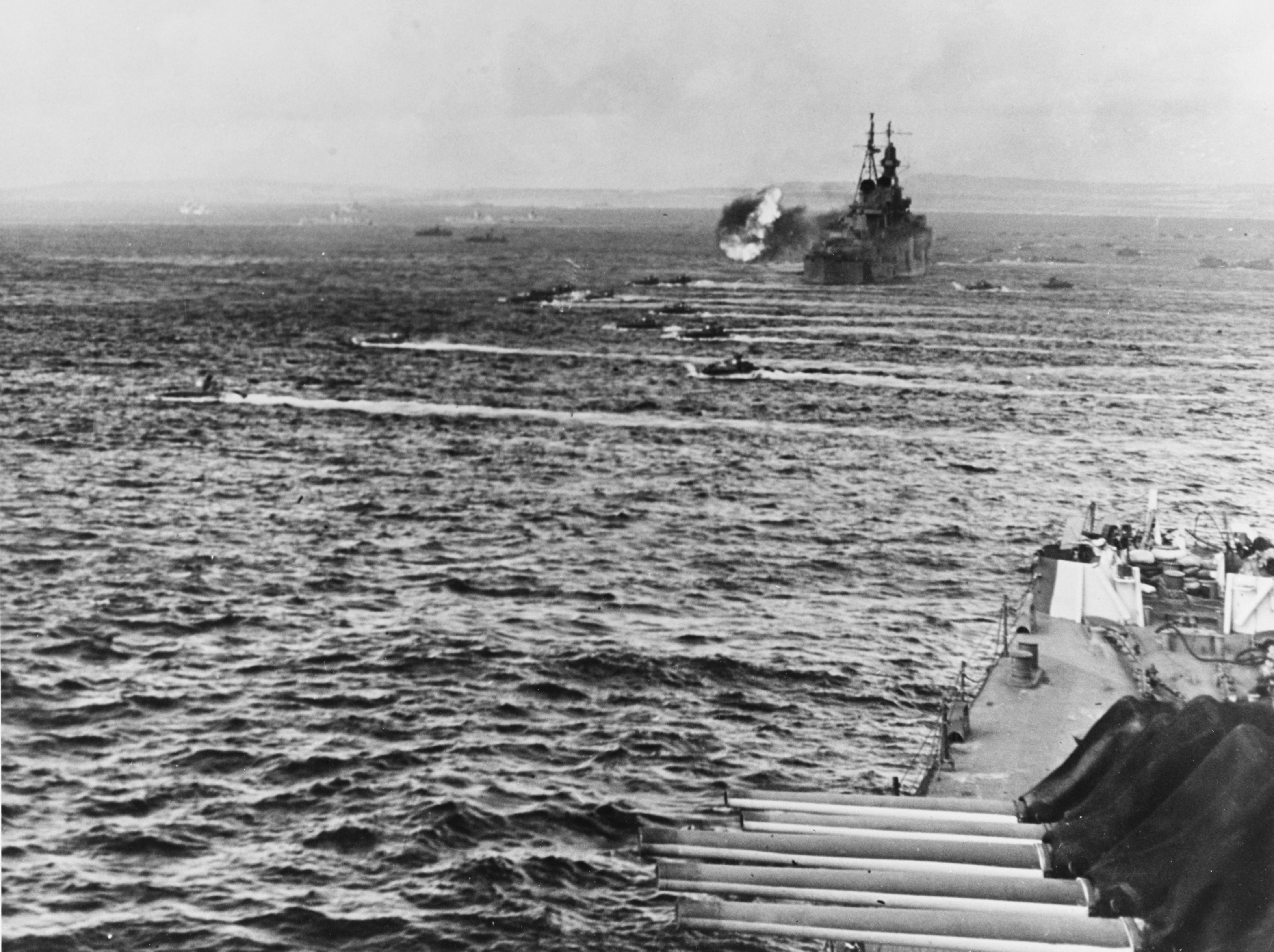 LVTs move toward Saipan, past bombarding cruisers, on D-Day, 15 June 1944. The heavy cruiser firing in the background is USS Indianapolis (CA-35), flagship of Fifth Fleet commander Admiral Raymond A. Spruance. The photo was taken from the light cruiser USS Birmingham (CL-62).